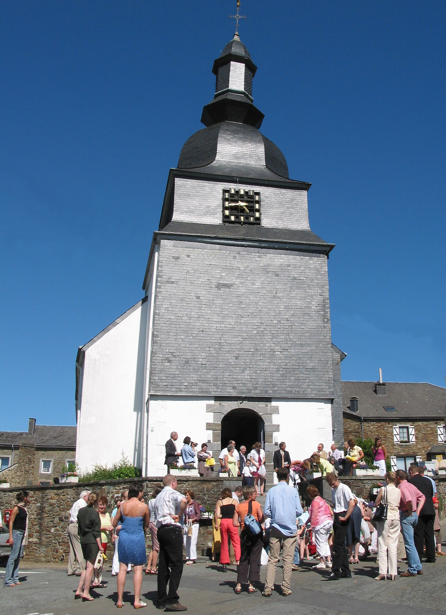 Rochehaut (Belgium), l'église Saint Firmin (XVIIIth century).